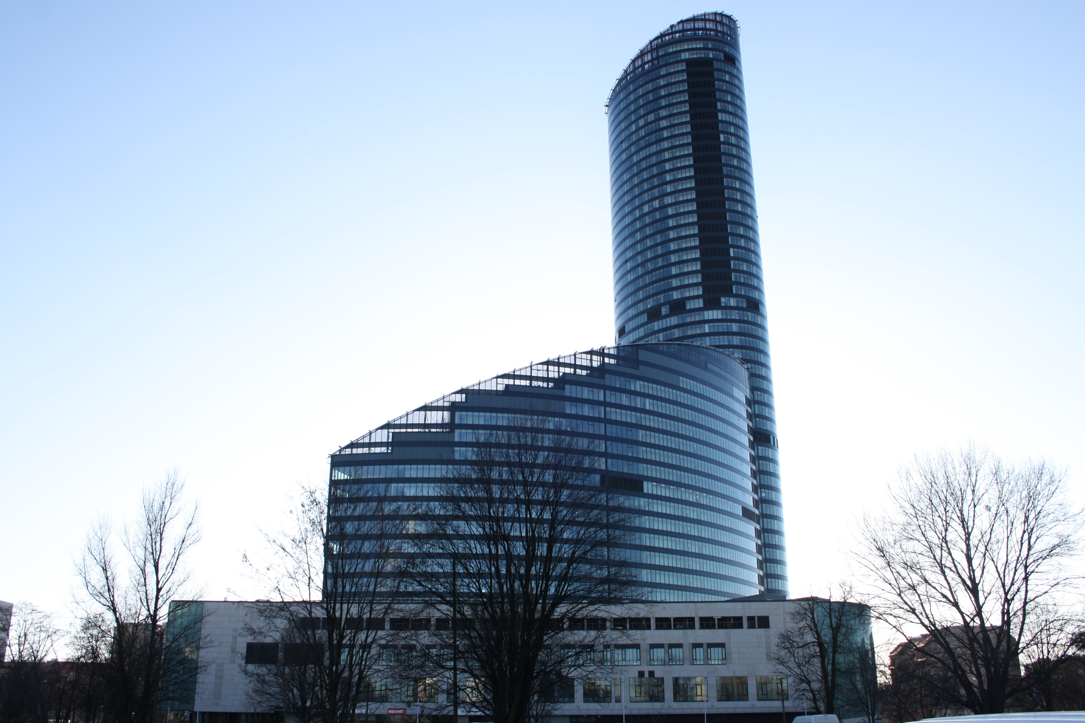 Sky Tower Wroclaw